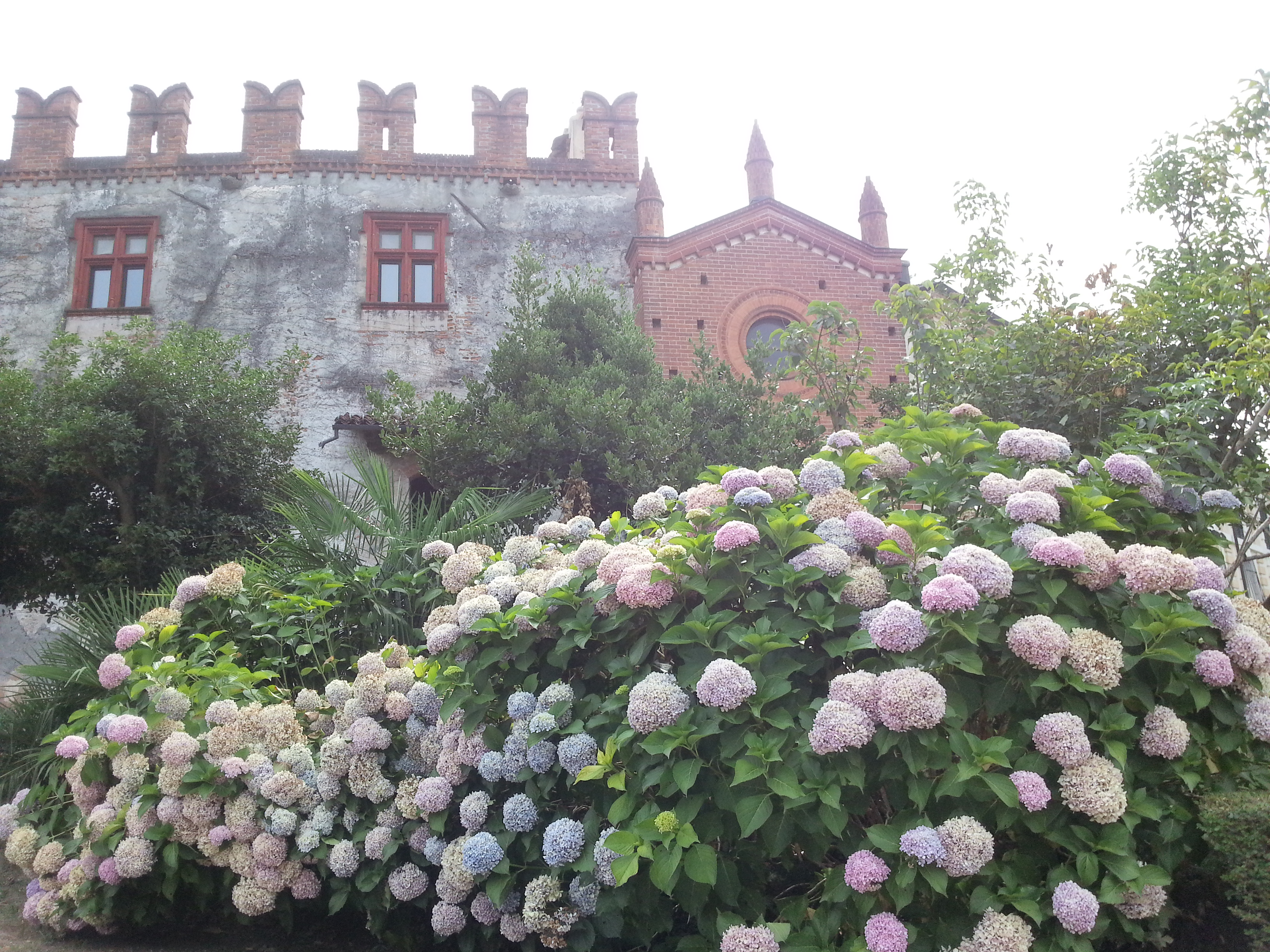 Banchette Castle, Northern Italy